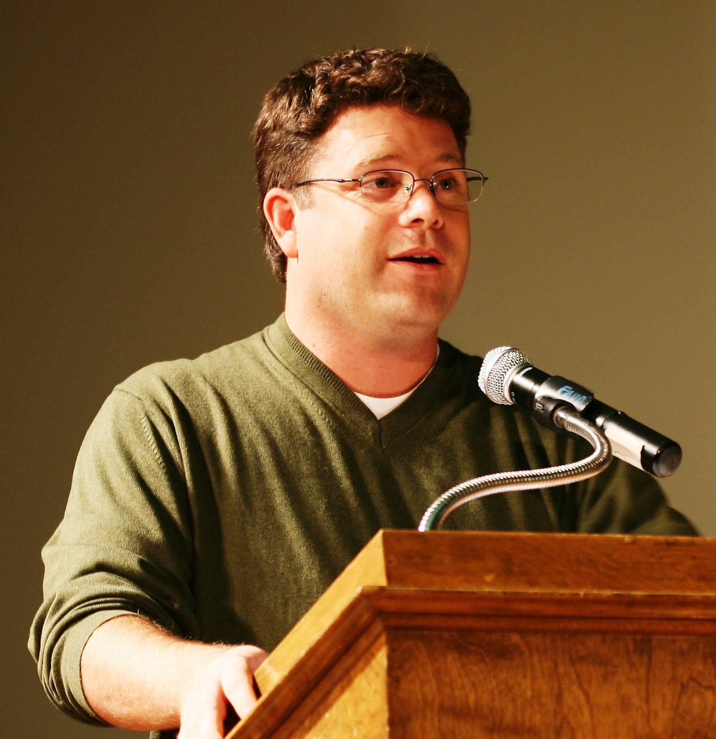 The actor Sean Astin giving a talk at the University of Illinois at Urbana-Champaign